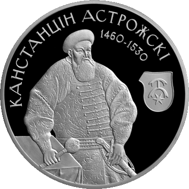 Konstanty Ostrogski - Silver commemorative coins, denomination: 20 rubles